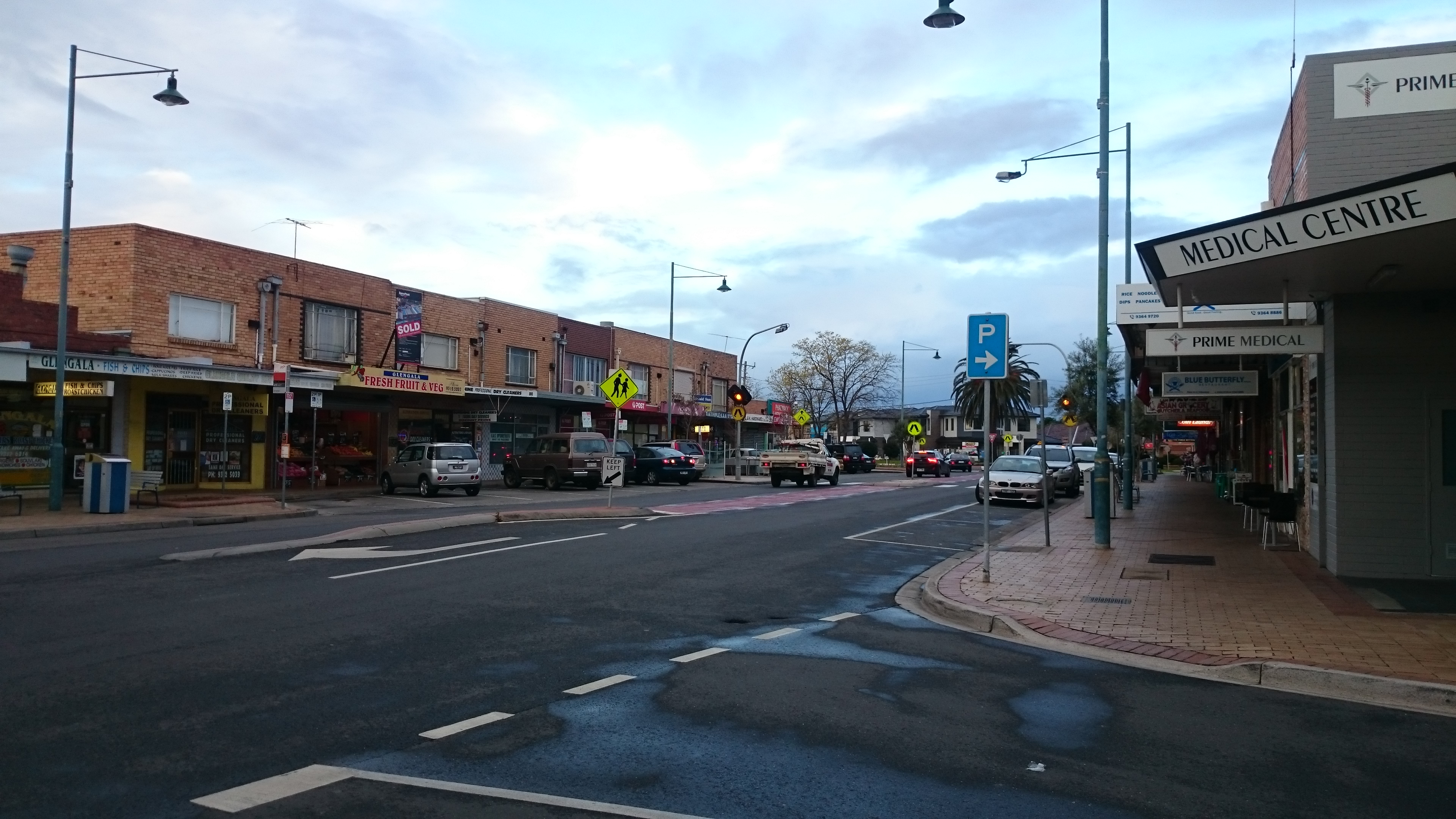 Glengala Village in Sunshine West, September 2014